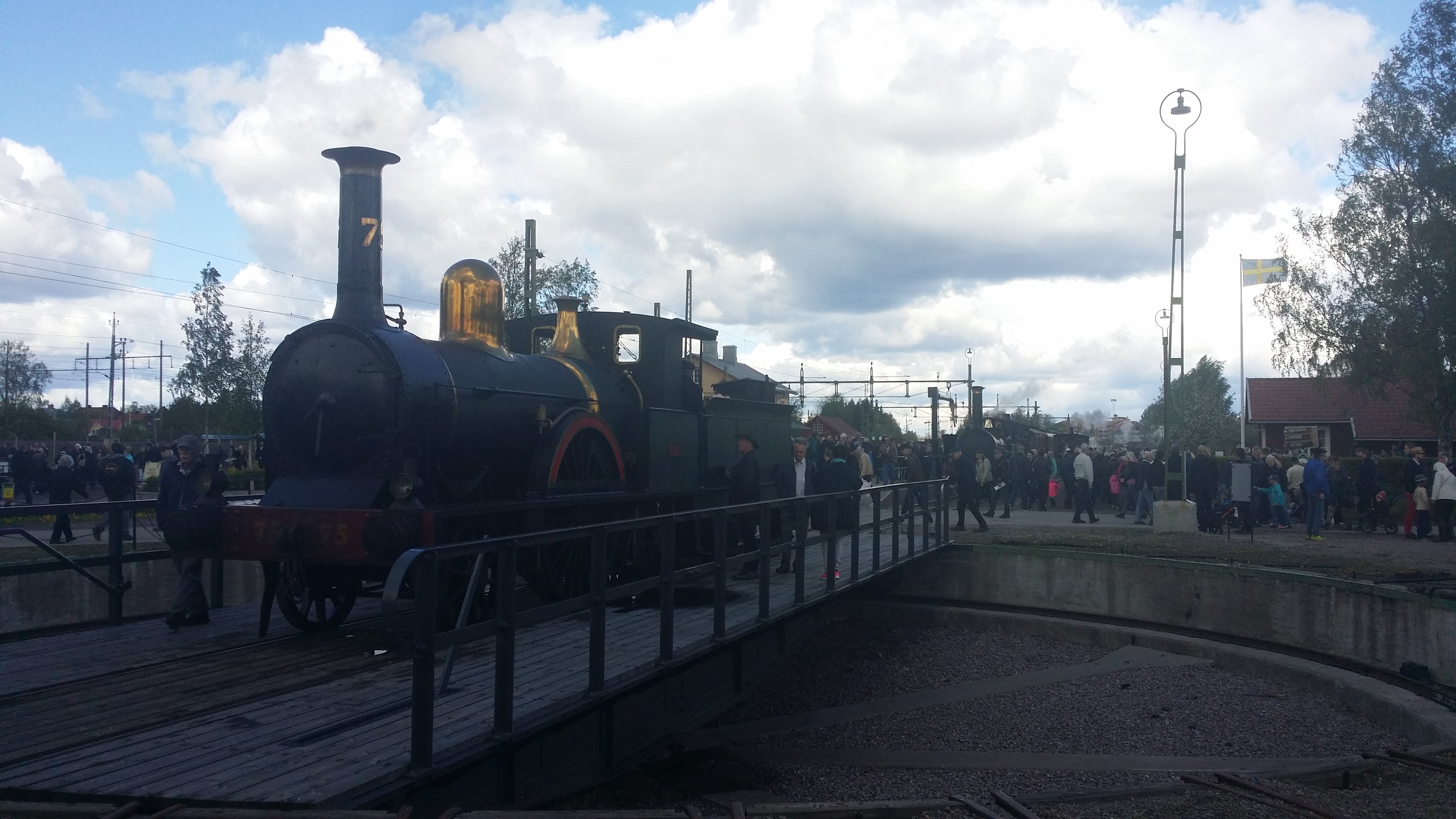 SJ A 75 "Göta" in Gävle, 2015.